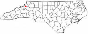 Category:North Carolina Dot Maps